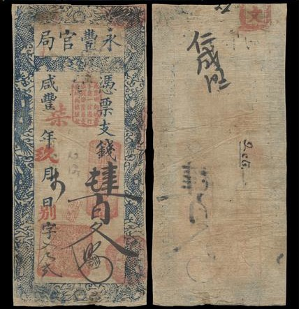 A Chinese banknote issued under the reign of the Manchu Qing Dynasty.